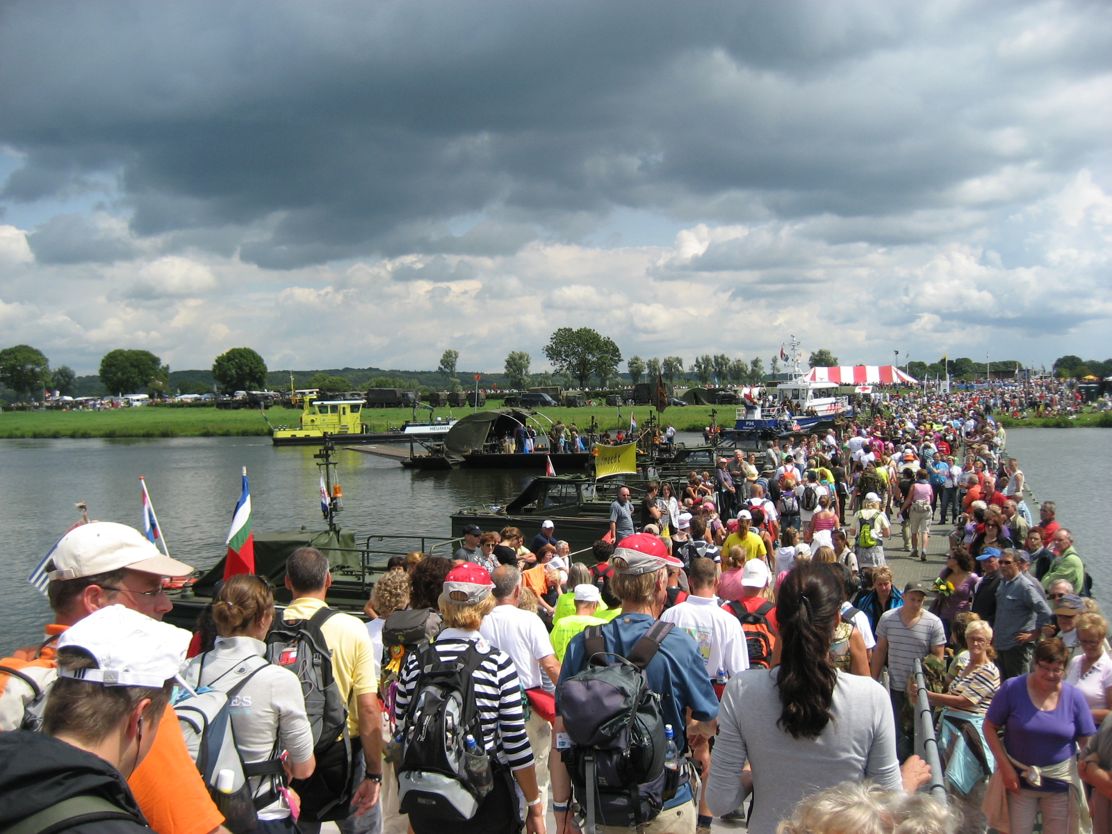 Four day marches 2009. The last day called 'the day of Cuijk'. This is the Pontoon bridged in Cuijk. I used to call it a 'military bridge'.